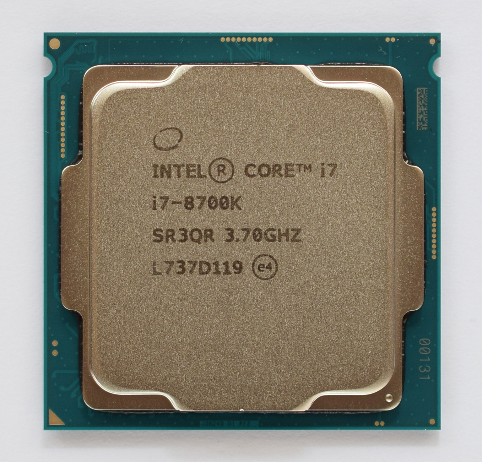 Intel® Core™ i7-8700K Processor